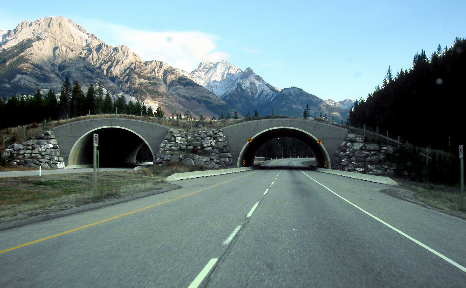 Trans-Canada Highway in Alberta, Canada, in the Banff National Park, between Banff and Lake Louise